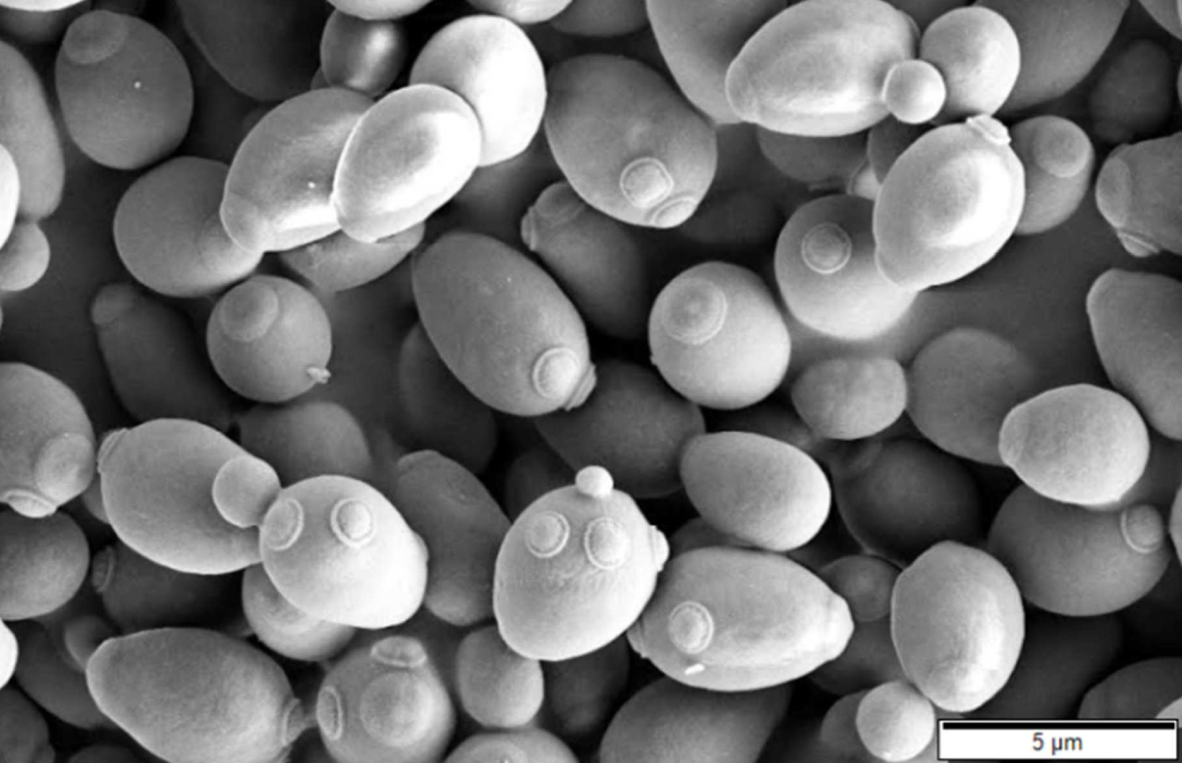 Saccharomyces cerevisiae, SEM image